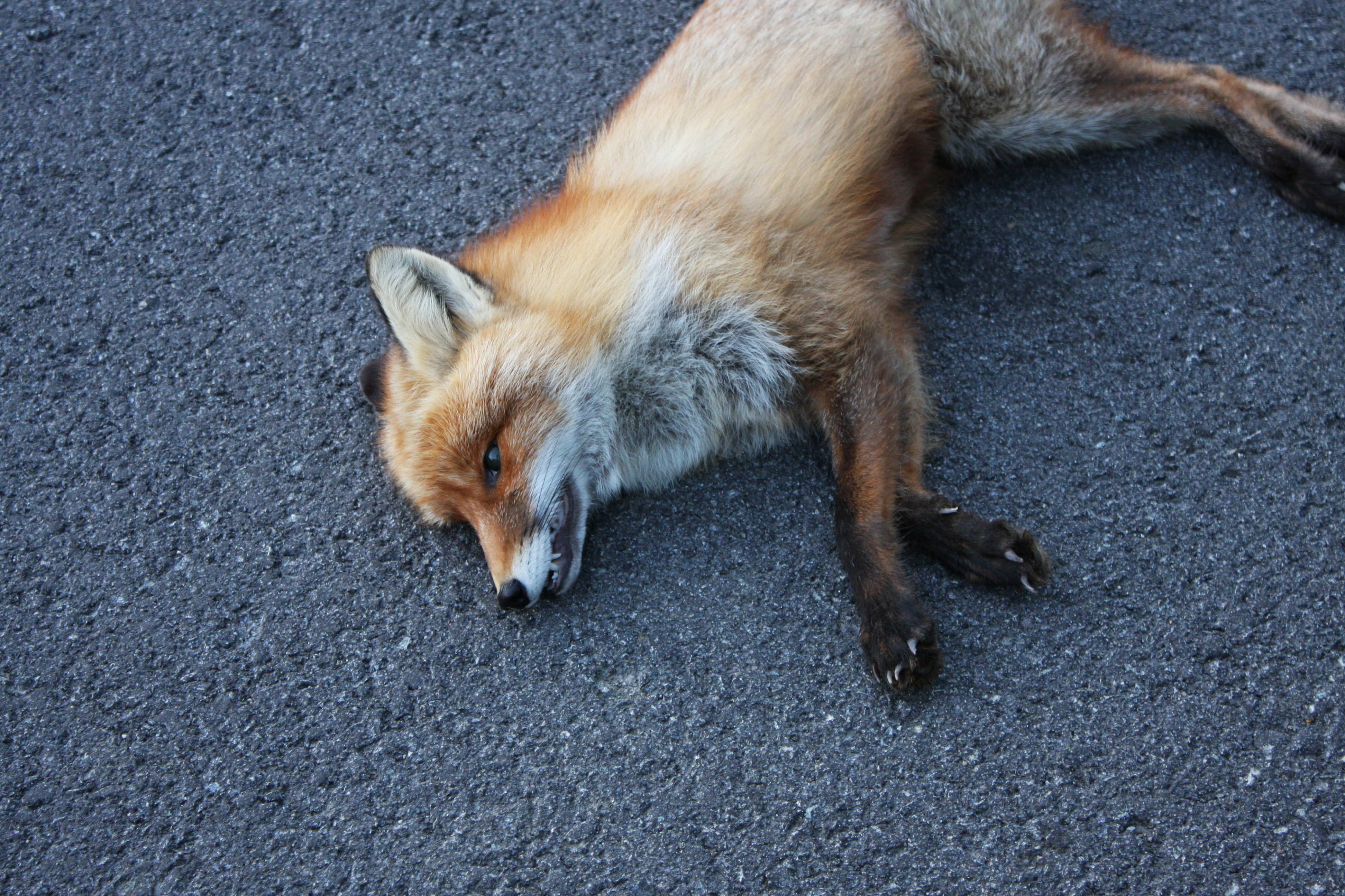 Unfortunately I ran over a norwegian red fox. I took a thin tree trunk nearby and carryed it up in the forest and ensured that it was dead.